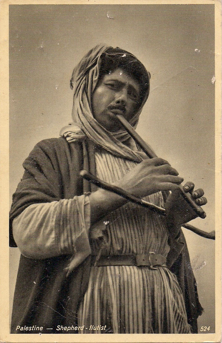 flautist , Art of Israel